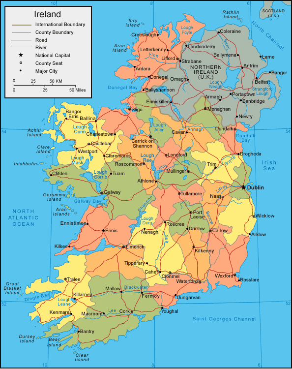 NRA (Irlandaise) National Route Agence Irlande 2006